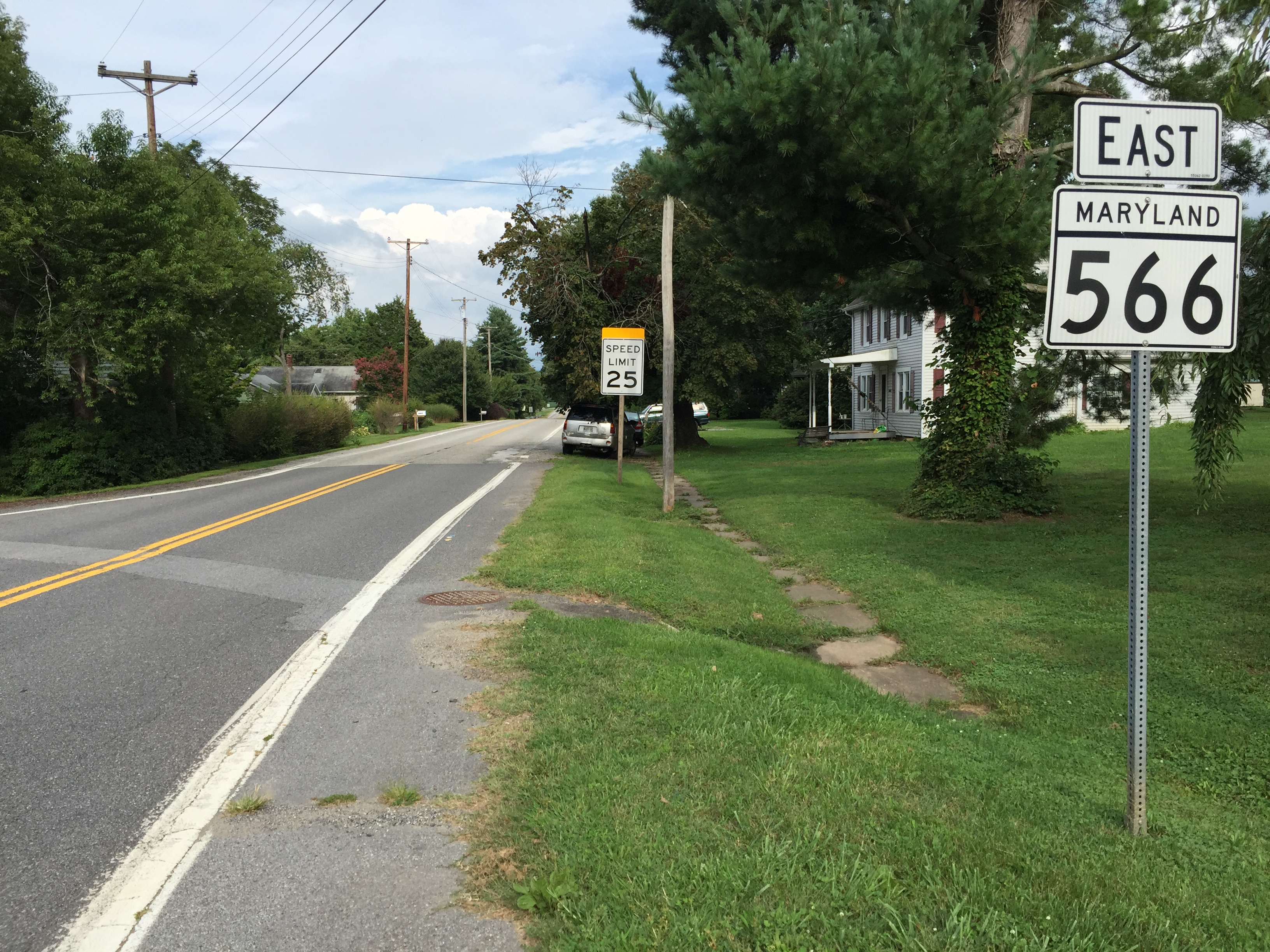 View east along Maryland State Route 566 (Old Still Pond Road) at Maryland State Route 292 (Still Pond Road) in Still Pond, Kent County, Maryland